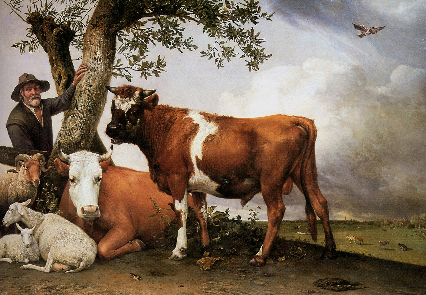 A bull, cow, ram, ewe and lam with herder in a landscape. On the horizon the church of Rijswijk is visible.